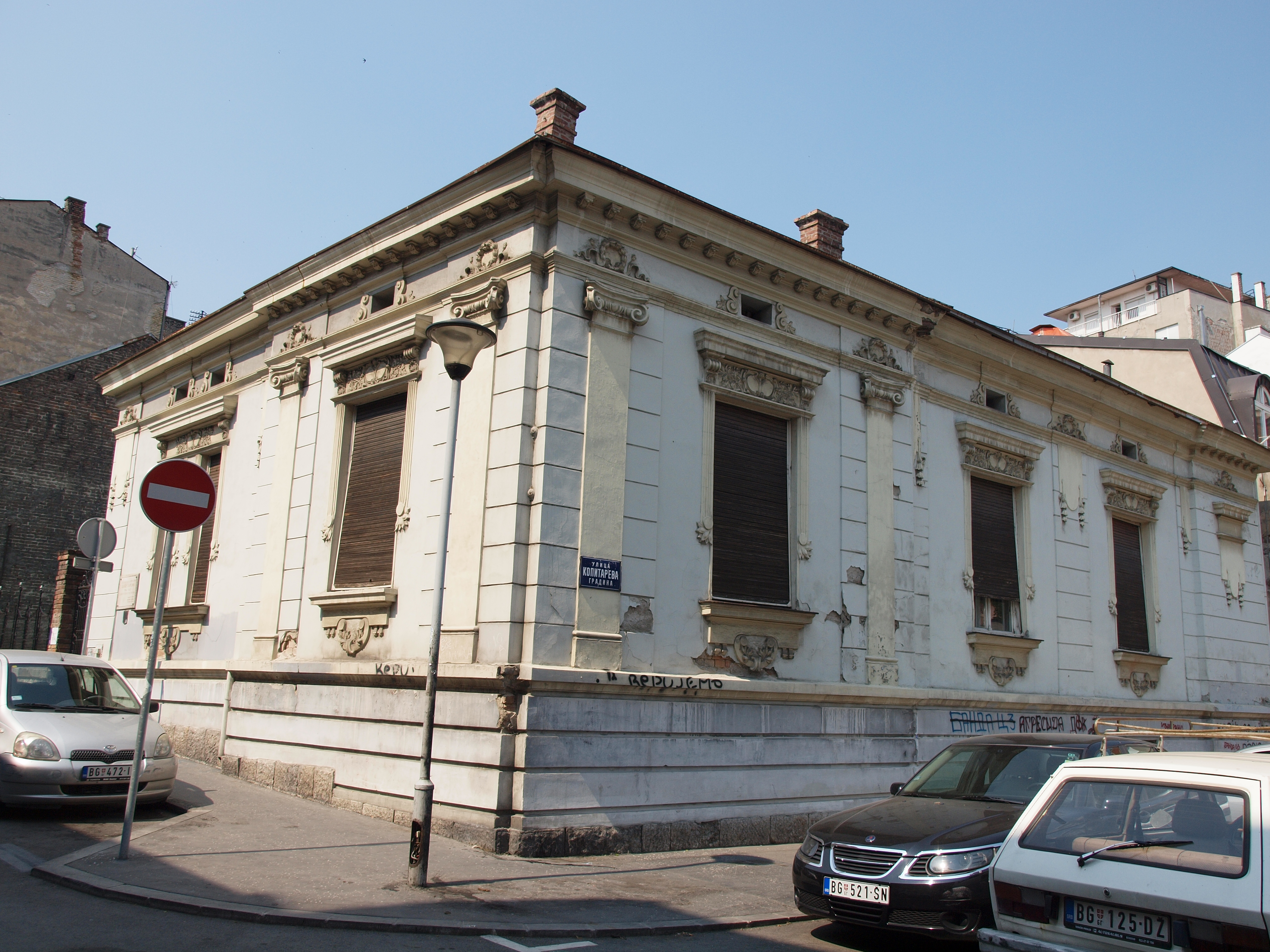 Muzej Jovana Cvijica Belgrade